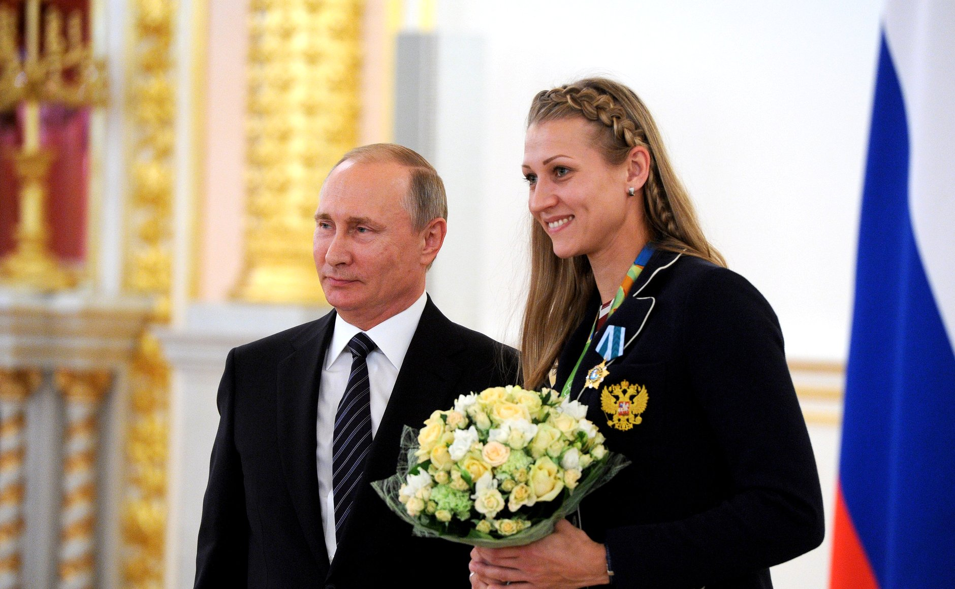 Vladimir Putin presented state awards to the Russian athletes who won gold medals at the 2016 Olympic Games in Rio de Janeiro (Brazil).